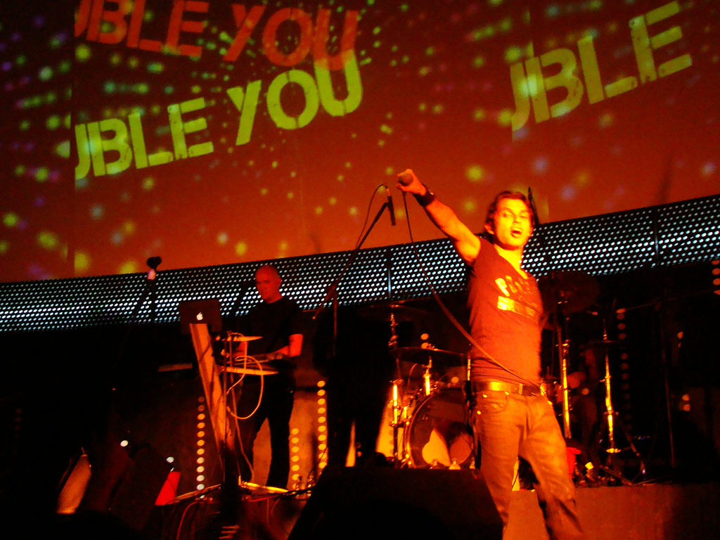 Double You in Bauru, Brazil in 27/06/2009.